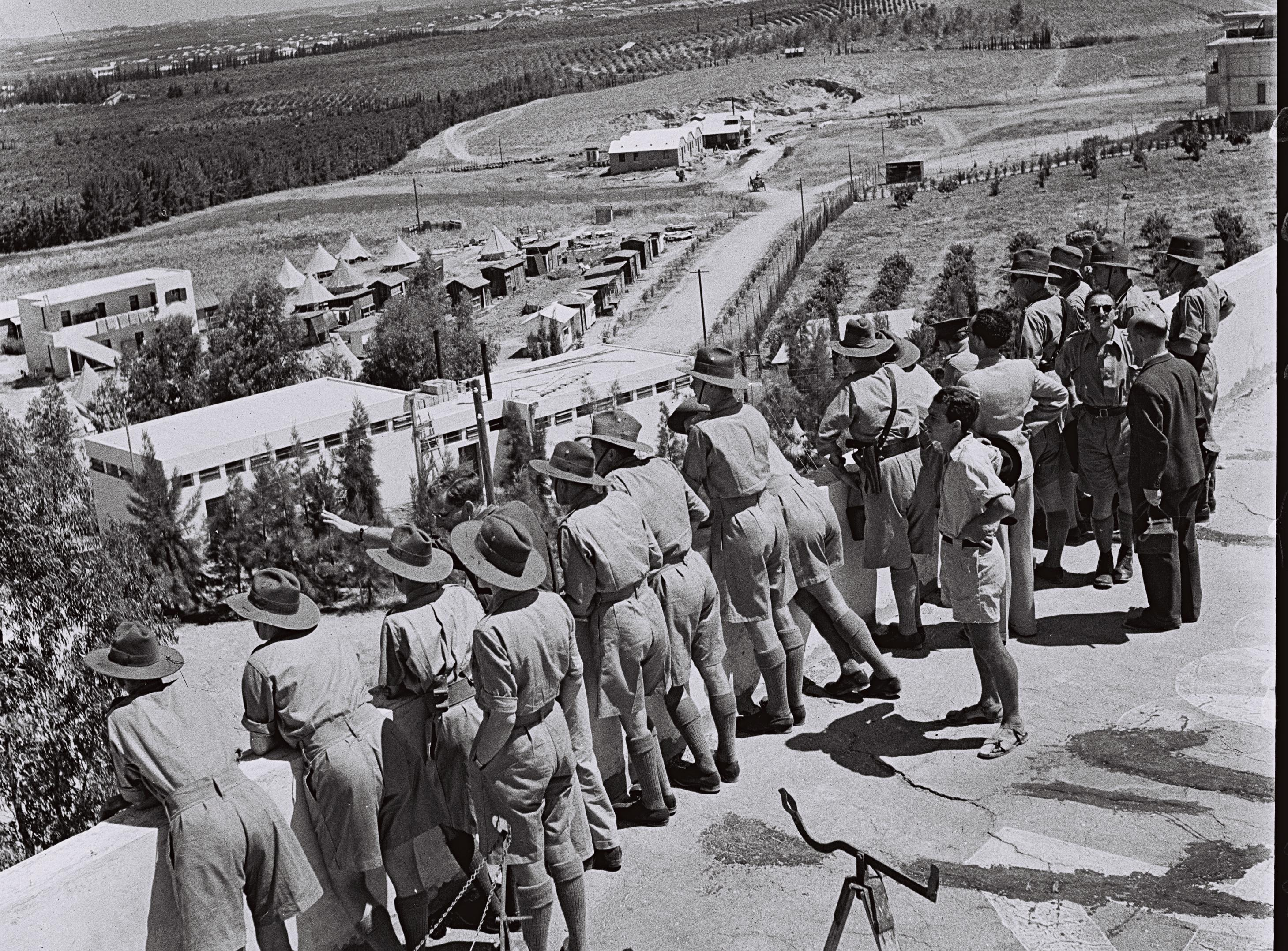 A GROUP OF AUSTRALIAN SOLDIERS ON A VISIT TO KIBBUTZ GIVAT BRENER. חיילים אוסטרלים מבקרים בקיבוץ גבעת ברנר.